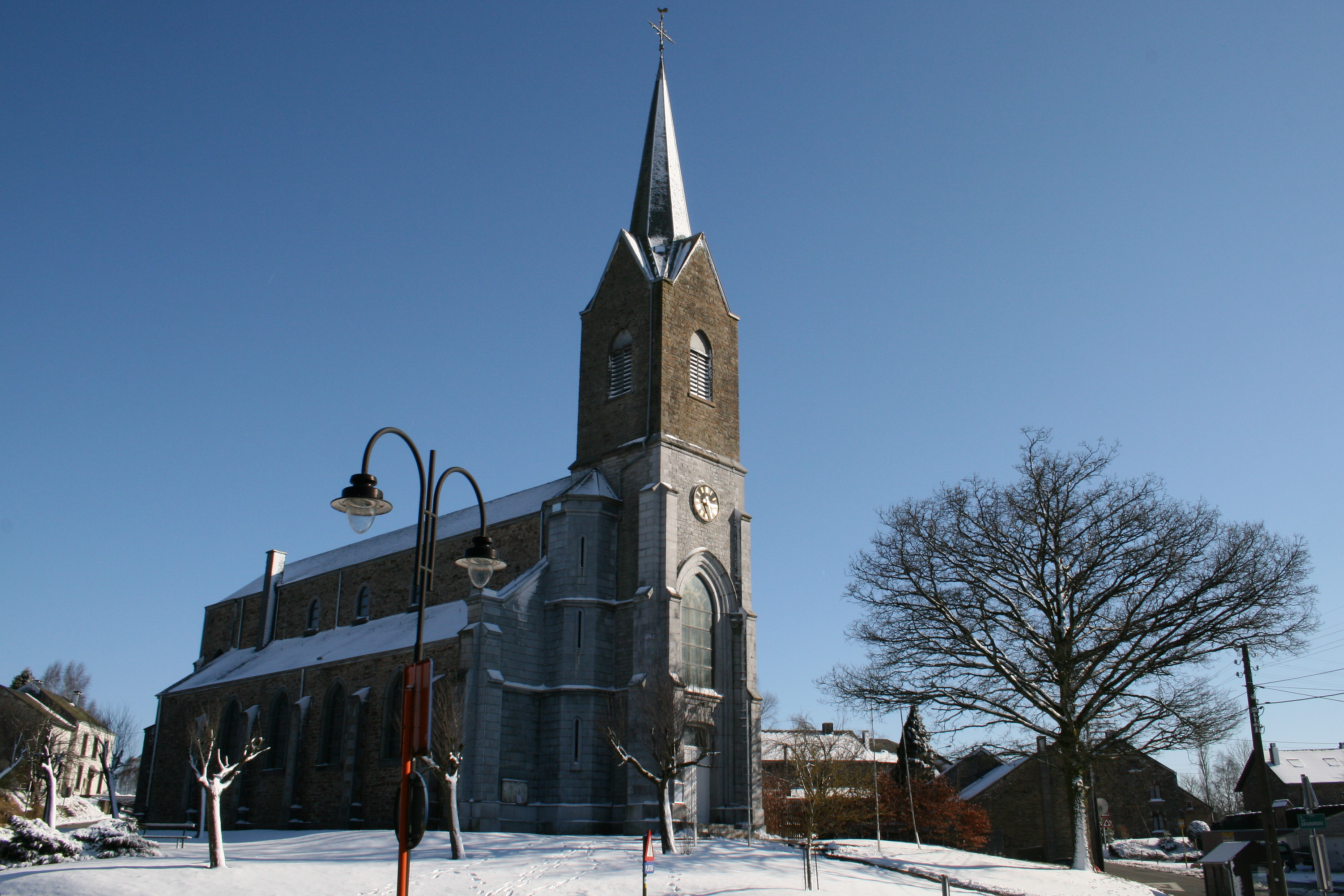 Champlon (Tenneville) (Belgium), the Saint Remacle church (1873-1874).